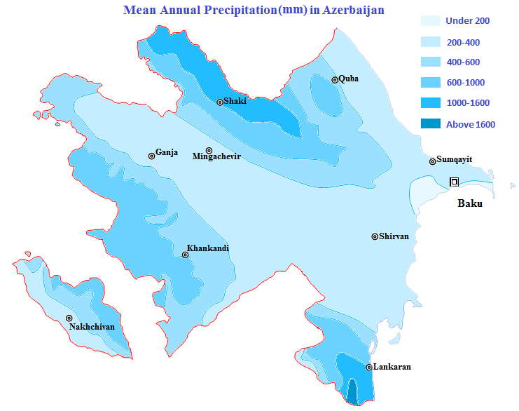 Mean annual perseption in azerbaijan